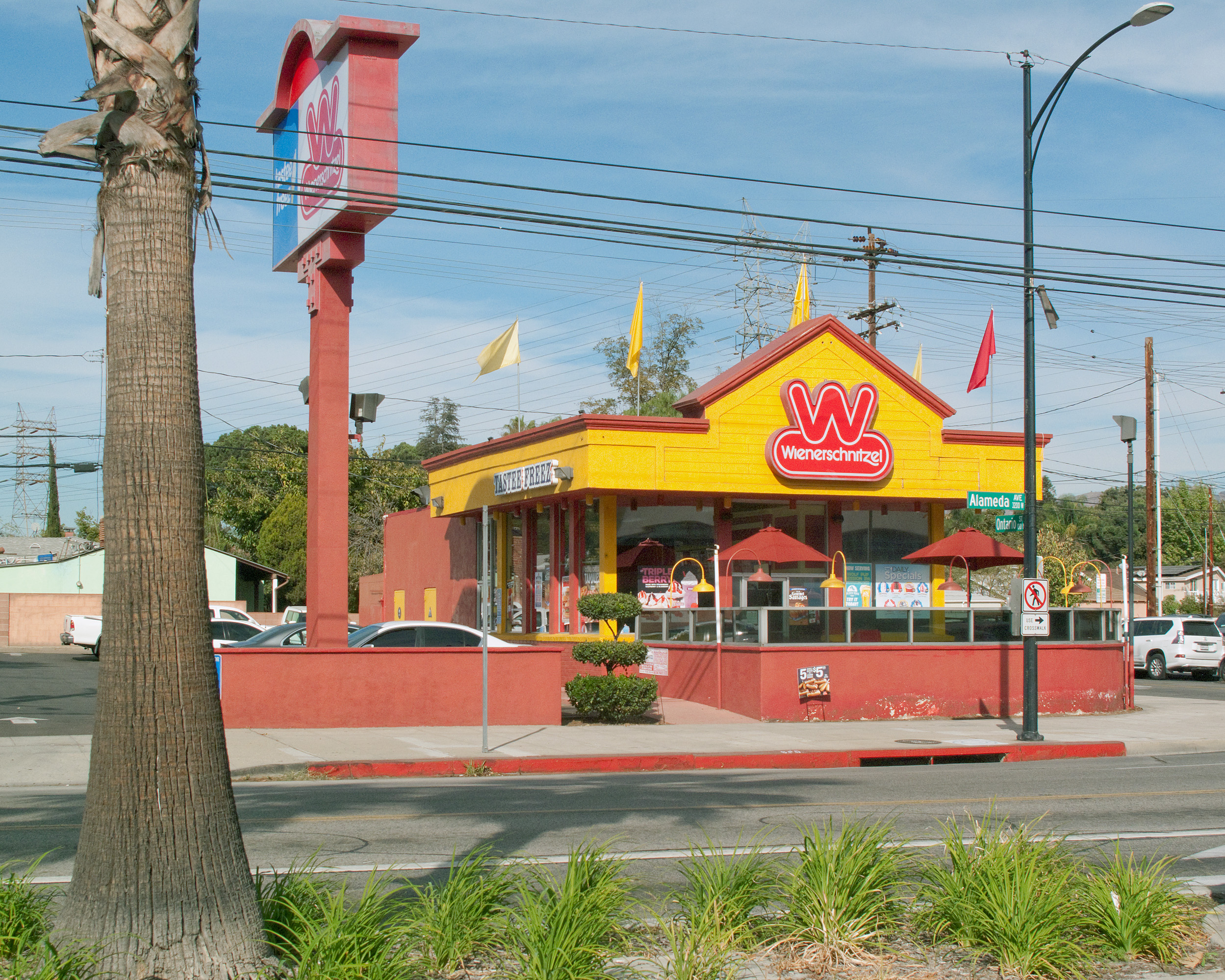 Wienerschnitzel fast food restaurant, 3203 West Alameda, Burbank, California.